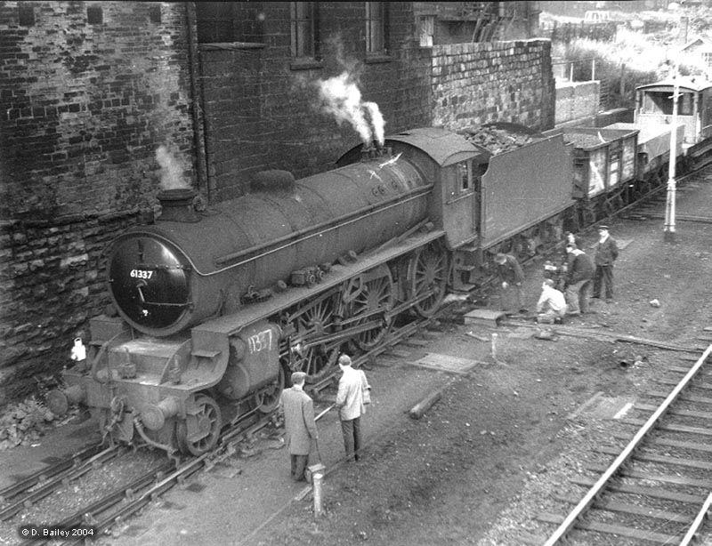 61337 derailed while shunting a freight train in the goods yard at Stanningley.